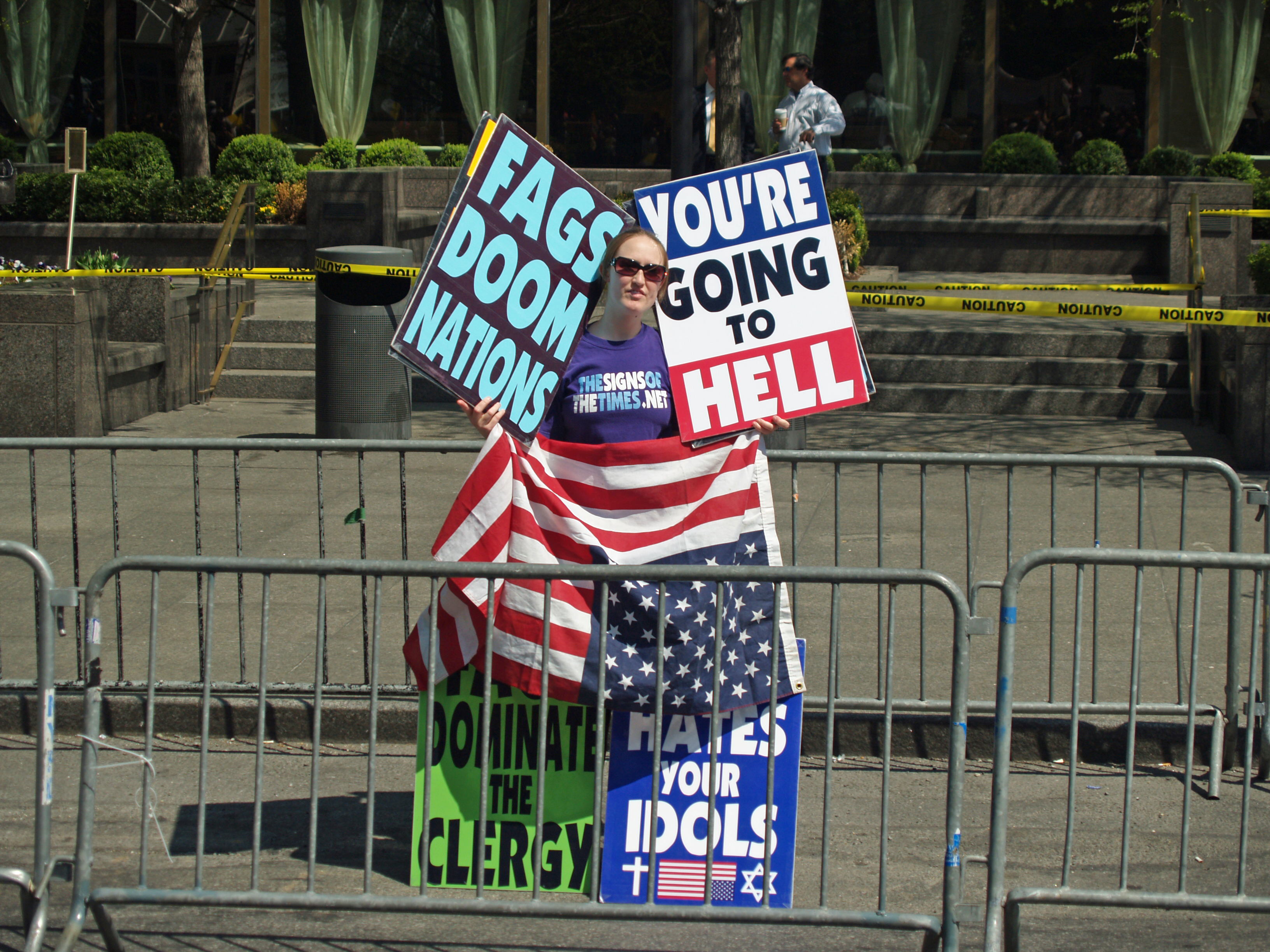 Westboro Baptist Church at the United Nations headquarters in New York City, on the day of Pope Benedict's address to the UN General Assembly.